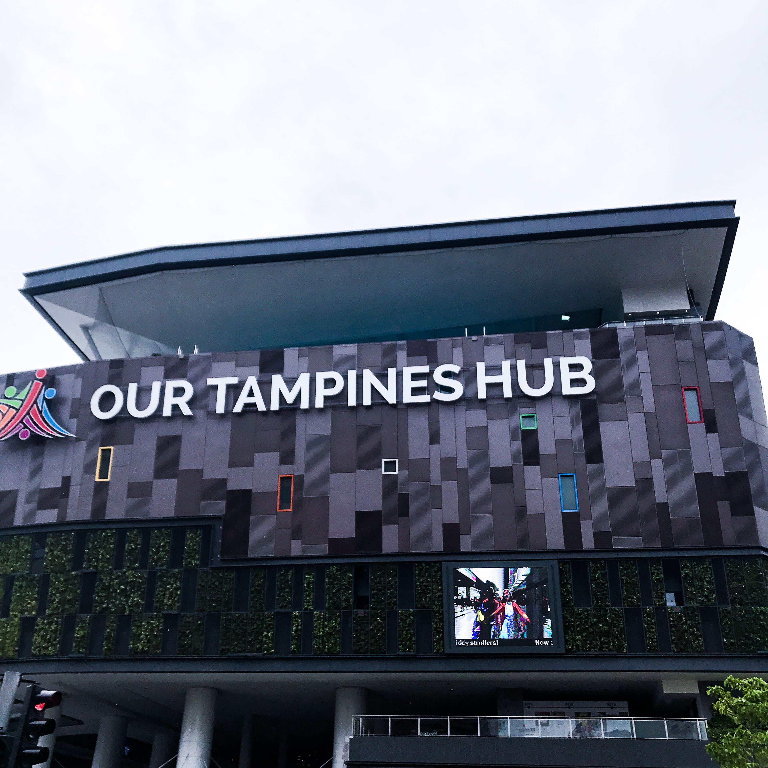 The exterior of Our Tampines Hub